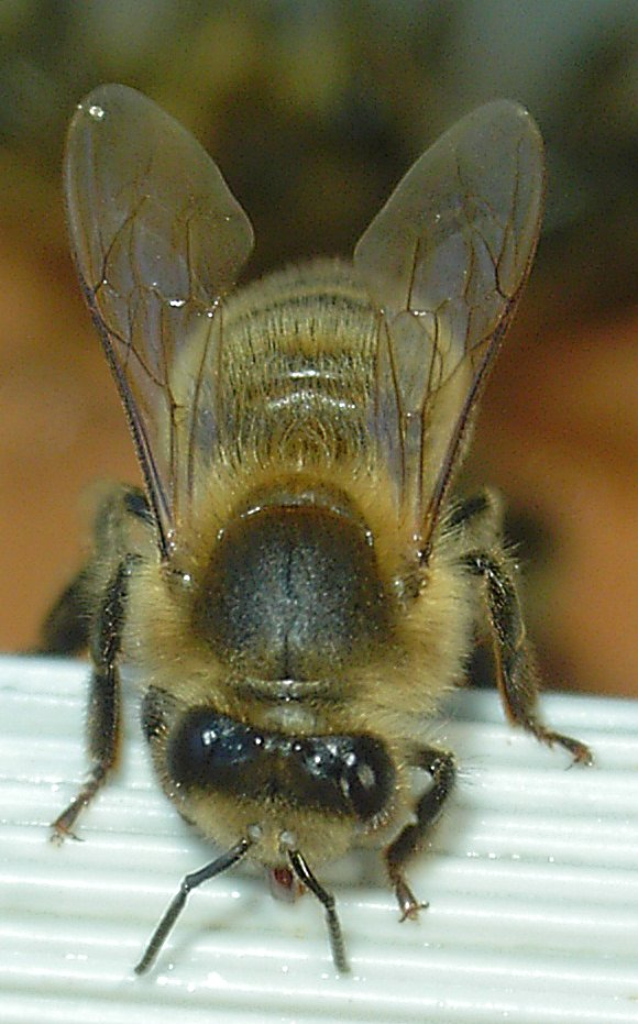 A black bee (Apis mellifera mellifera) in the feeding box, view in front.